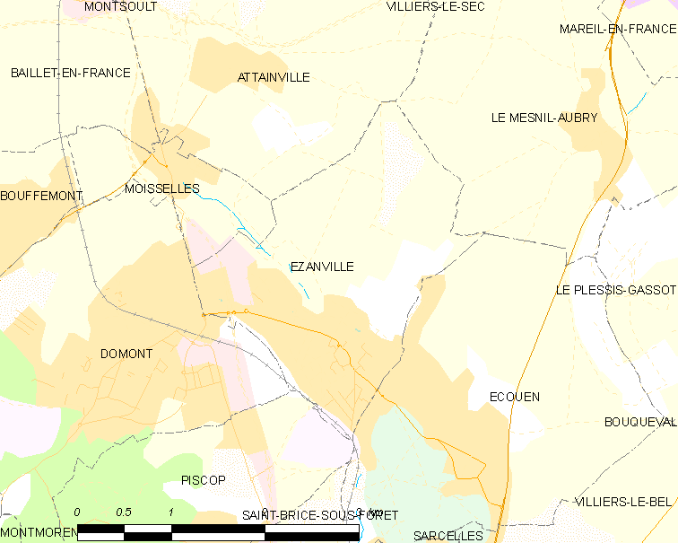 Map of French municipality Ézanville